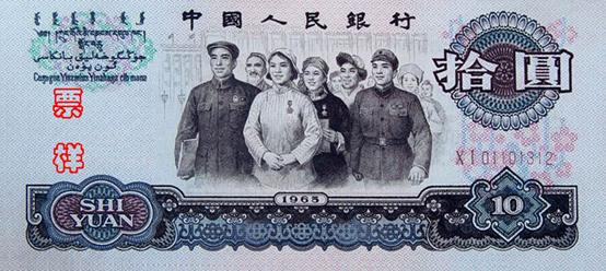 Third series of the renminbi 10yuan(sample)